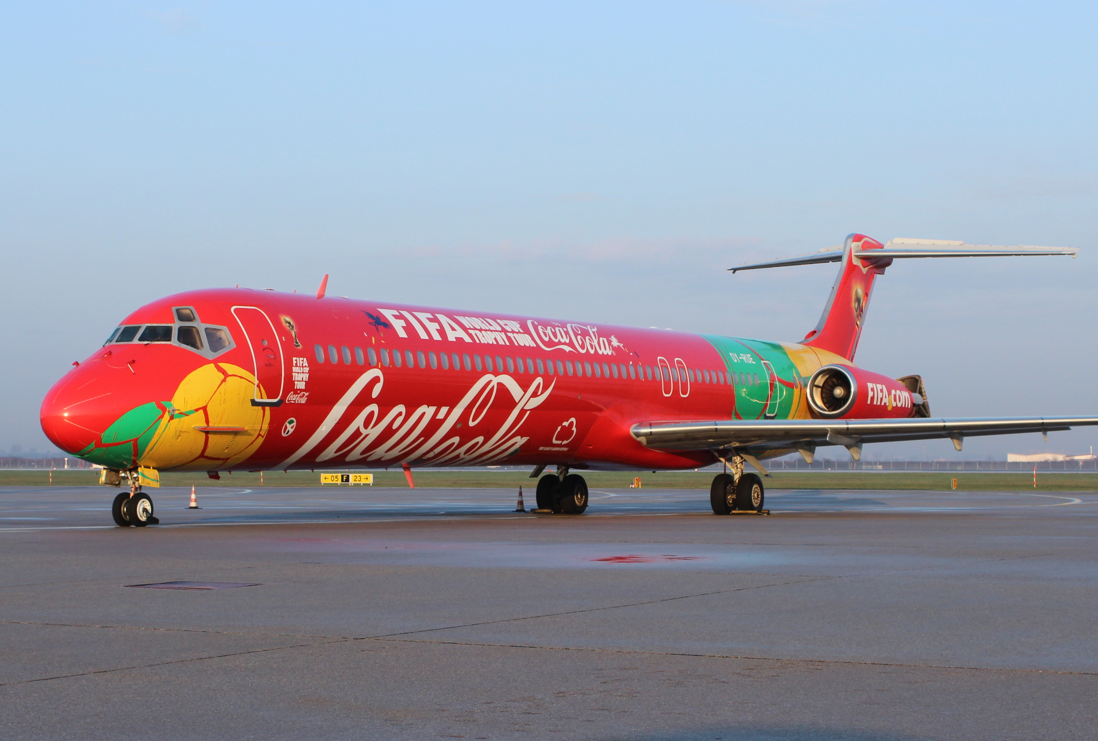 Red colored FIFA McDonnell Douglas MD-83